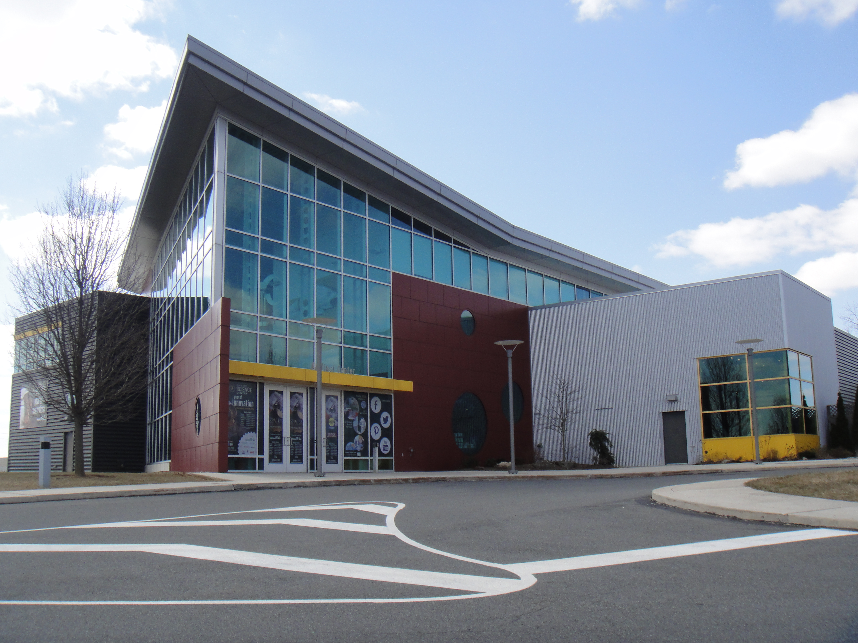 The Da Vinci Science Center building in Allentown, PA.